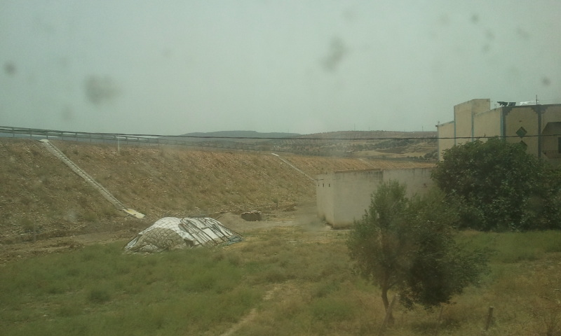 Building of Fes-Oujda expressway between Taorirt and Fes